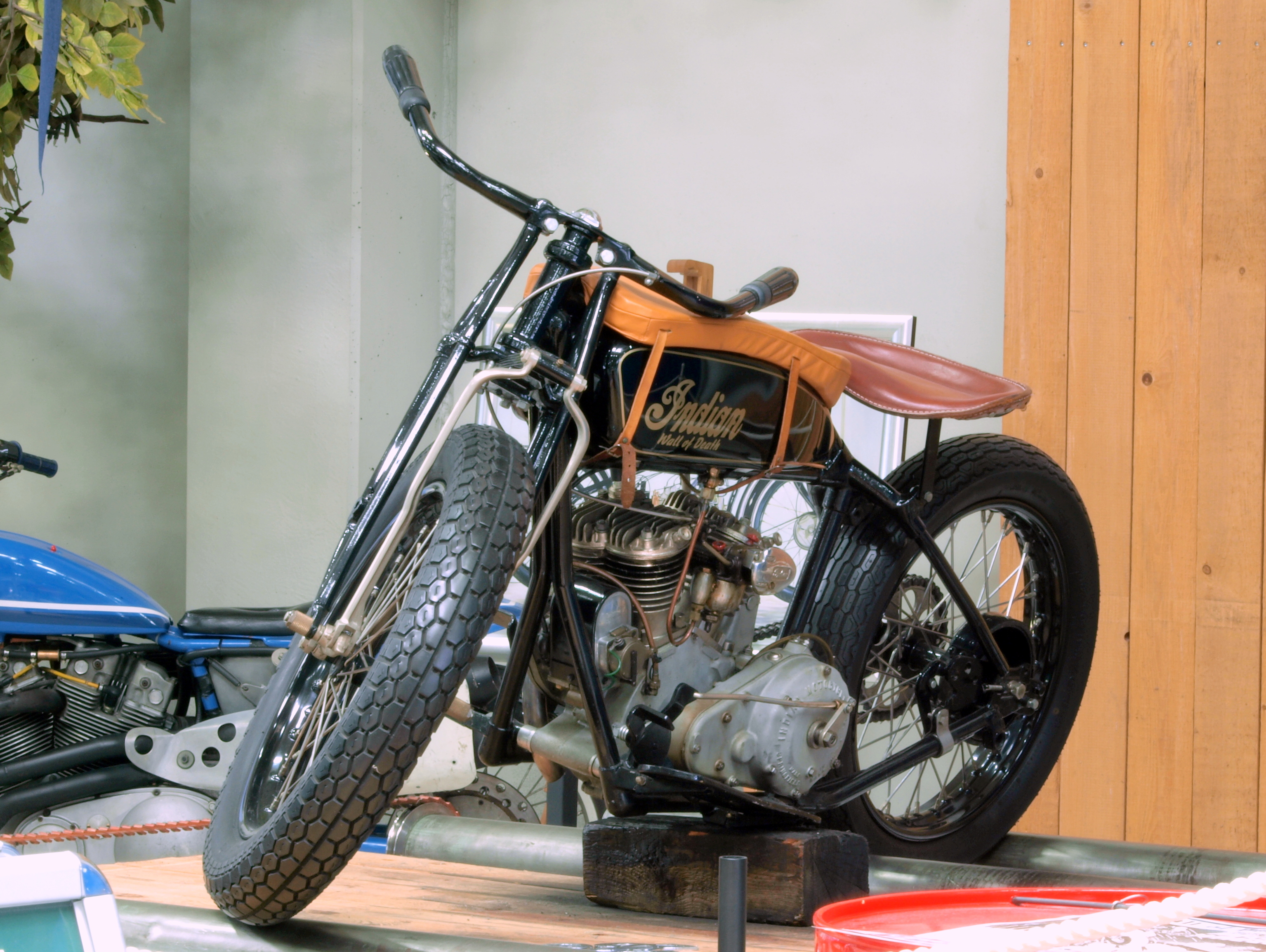 1928 Indian Scout 37, 18hp, 600cc. On rollers. Photographed at the Auto & Technic museum Sinsheim.